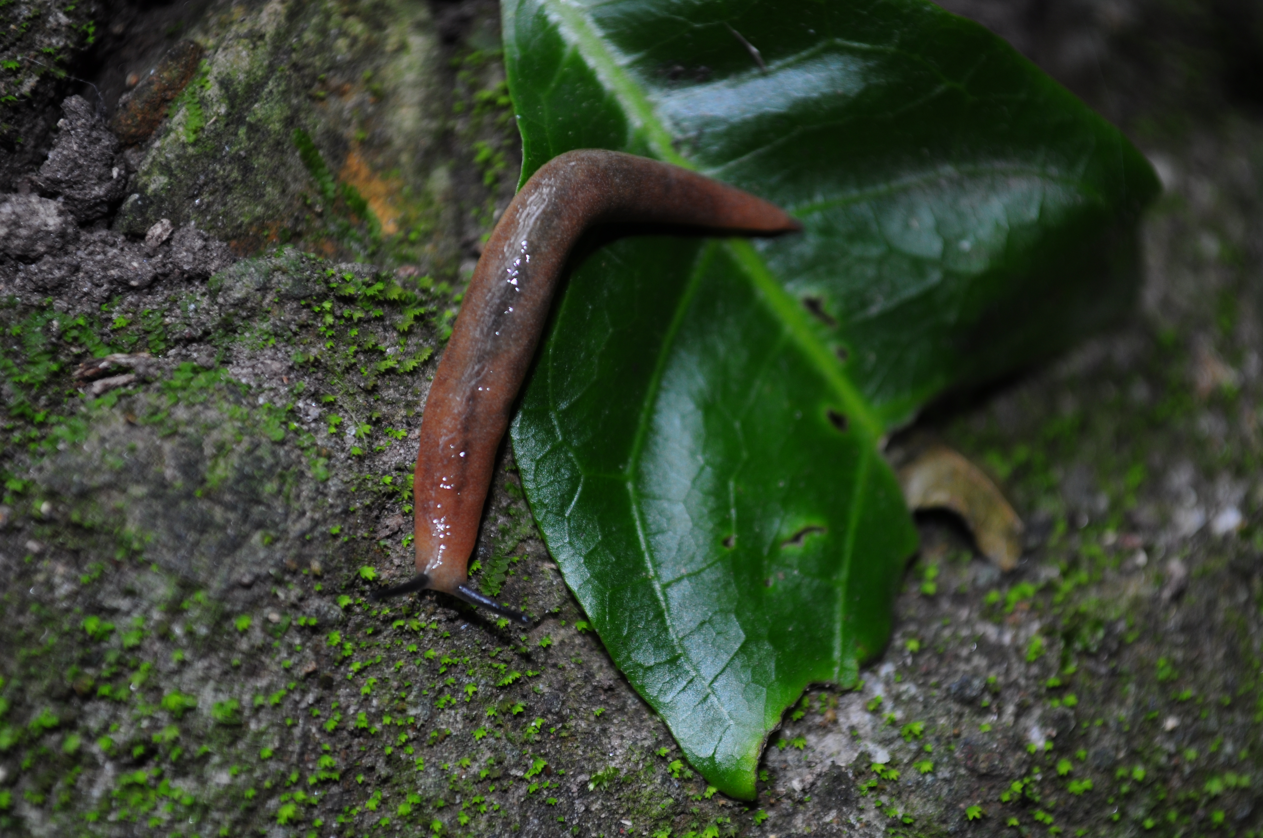 an unidentified gastropod, an slug from Jalcomulco, Veracruz, Mexico.